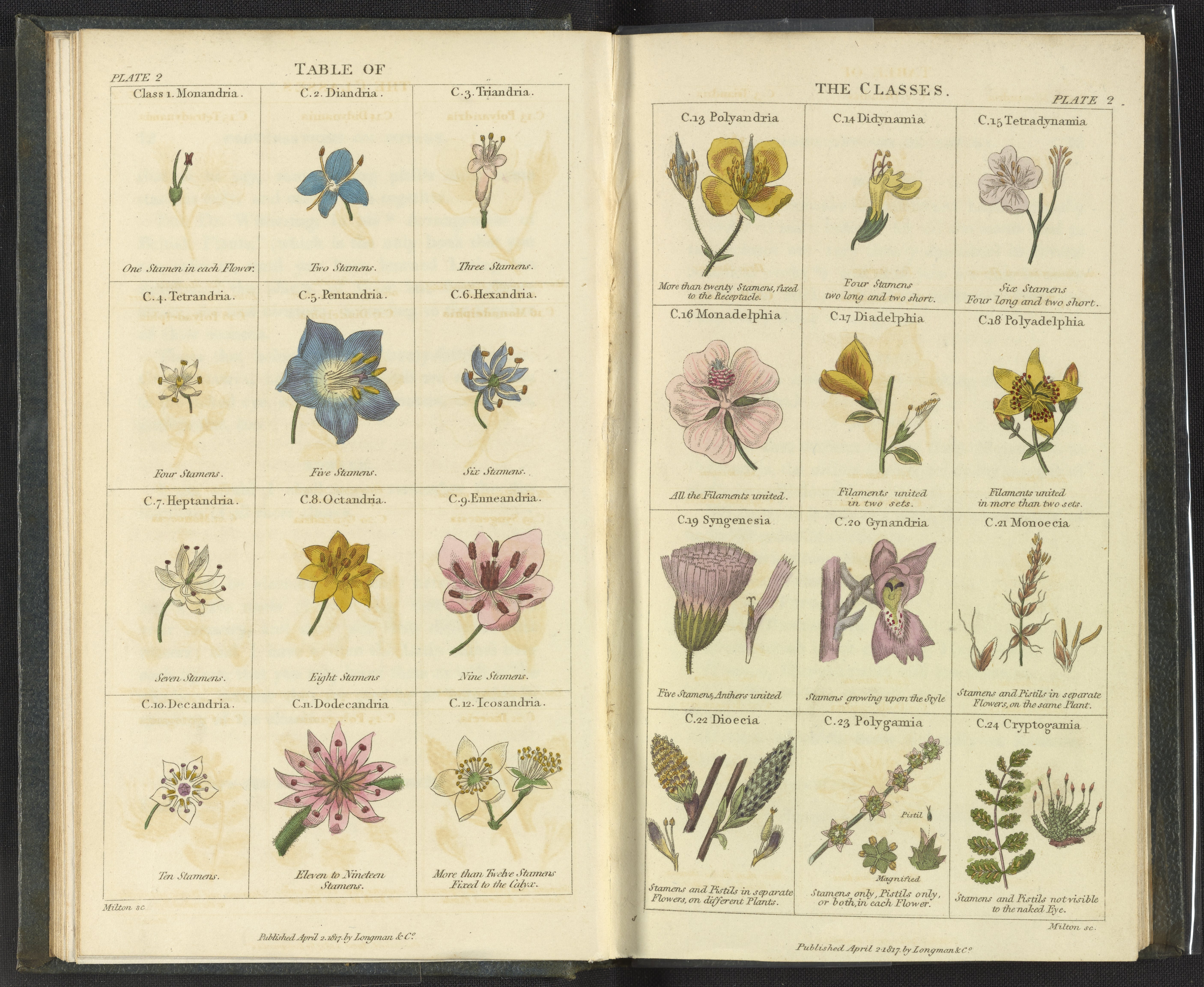 Fitton, Elizabeth, and Sarah Mary Fitton. “Plate 2: Table of the Classes.” In Conversations on Botany. London, England: Longman, Hurst, Rees, Orme, and Brown, 1817. Hand-colored lithograph with examples of the 24 botanical taxonomic classes: Monandria, Diandria, Triandria, Tetrandria, Pentandria, Hexandria, Heptandria, Octandria, Enneandria, Decandria, Dodecandria, Icosandria, Polyandria, Didynamia, Tetradynamia, Monadelphia, Diadelphia, Polyadelphia, Syngenesia, Gynandria, Monoecia, Dioecia, Polygamia, and Cryptogamia.